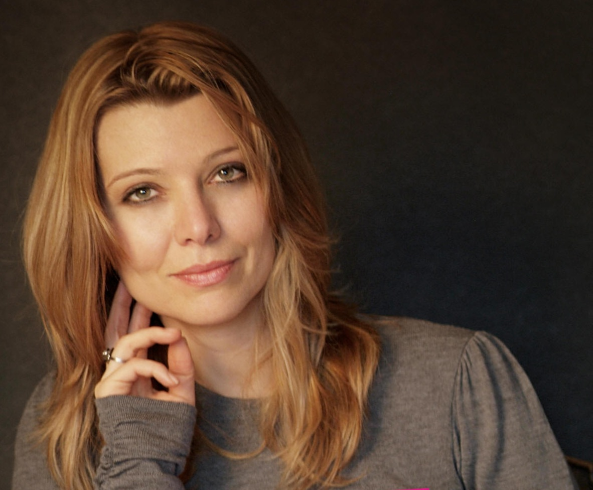 Turkish writer Elif Shafak